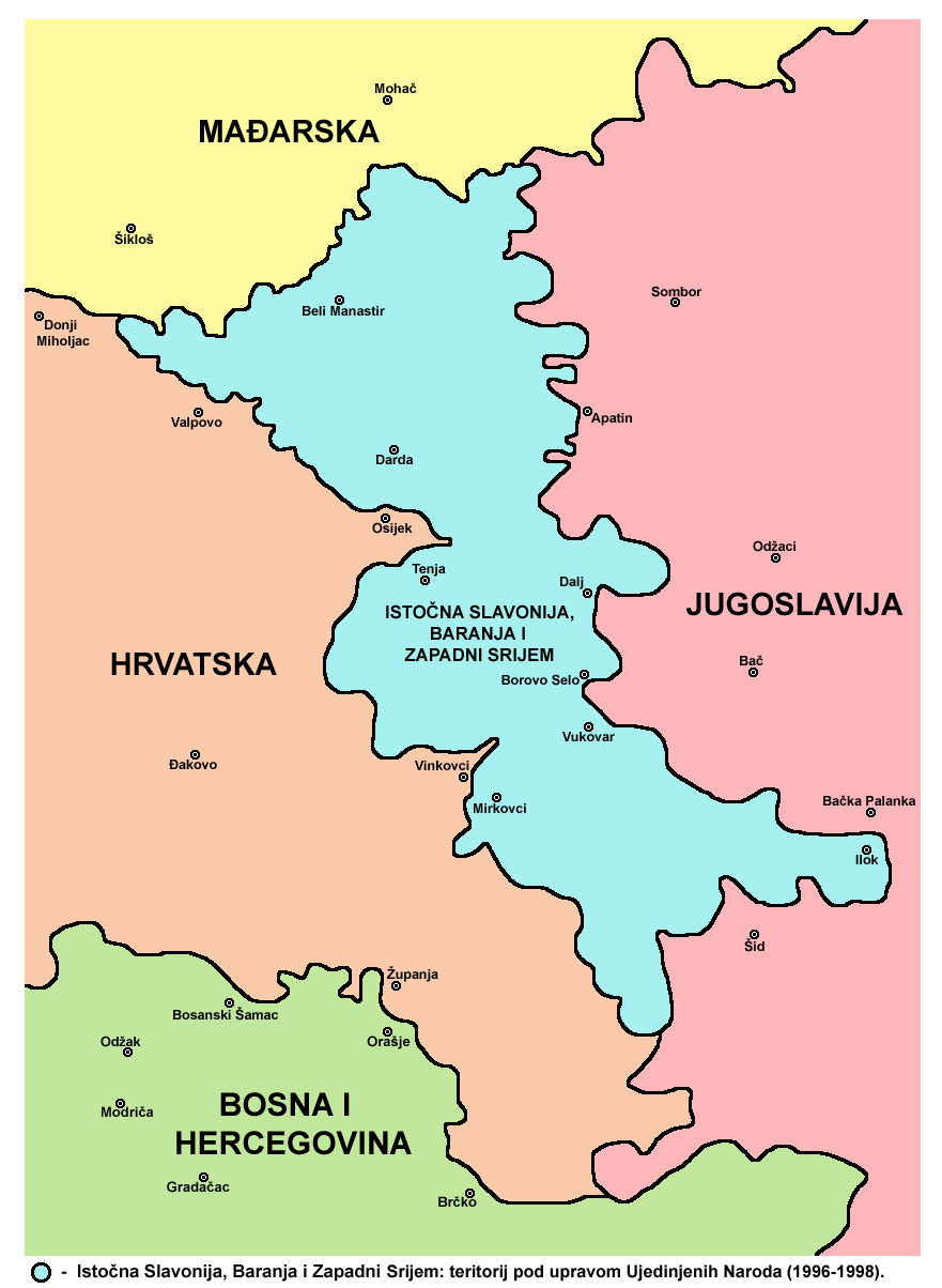 Map of the Eastern Slavonia, Baranja and Western Syrmia - Croatian language version.